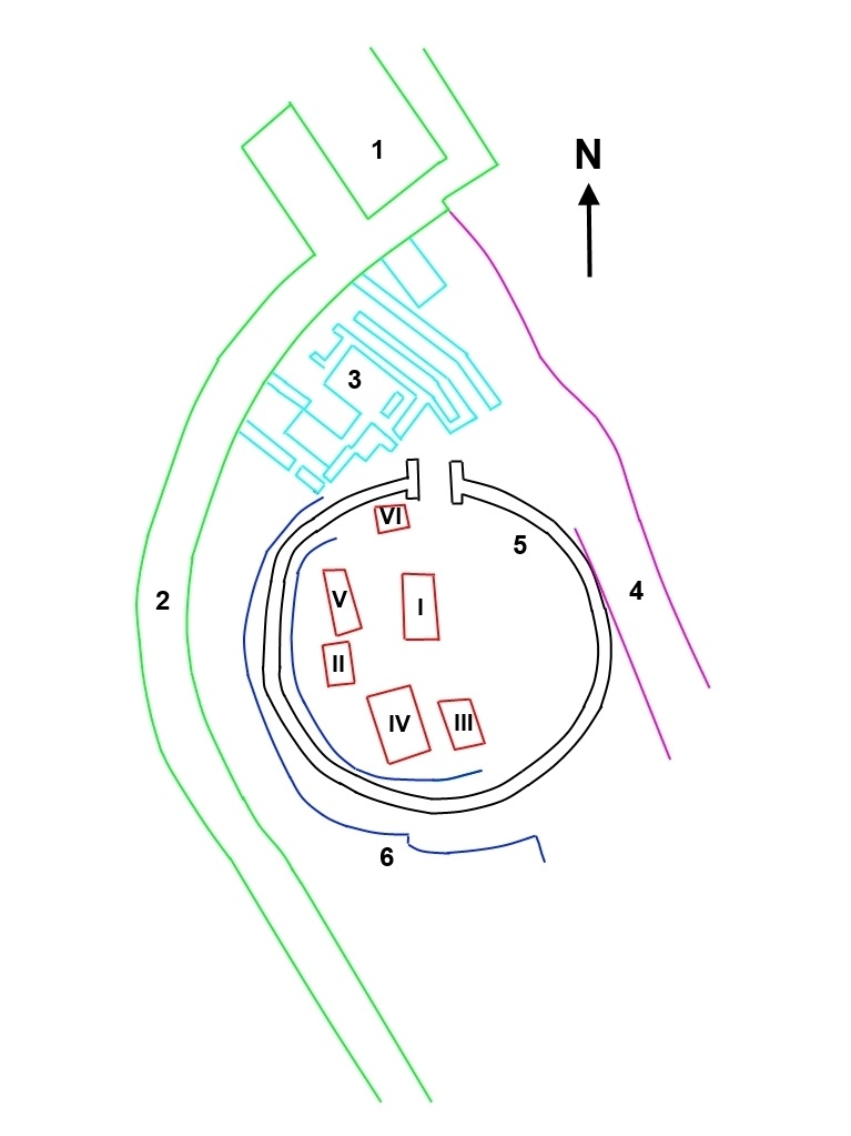 Mycenae: Plan of grave circle A: 1 = lion gate 2 = cyclopean wall 3 = granary 4 = ramp 5 = grave circle A 6 = supporting wall I-VI = graves I-VI